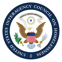 Seal of the U.S. Interagency Council on Homelessness